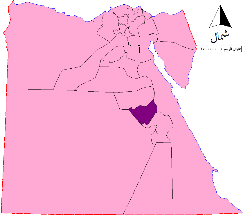 Sohag Governorate